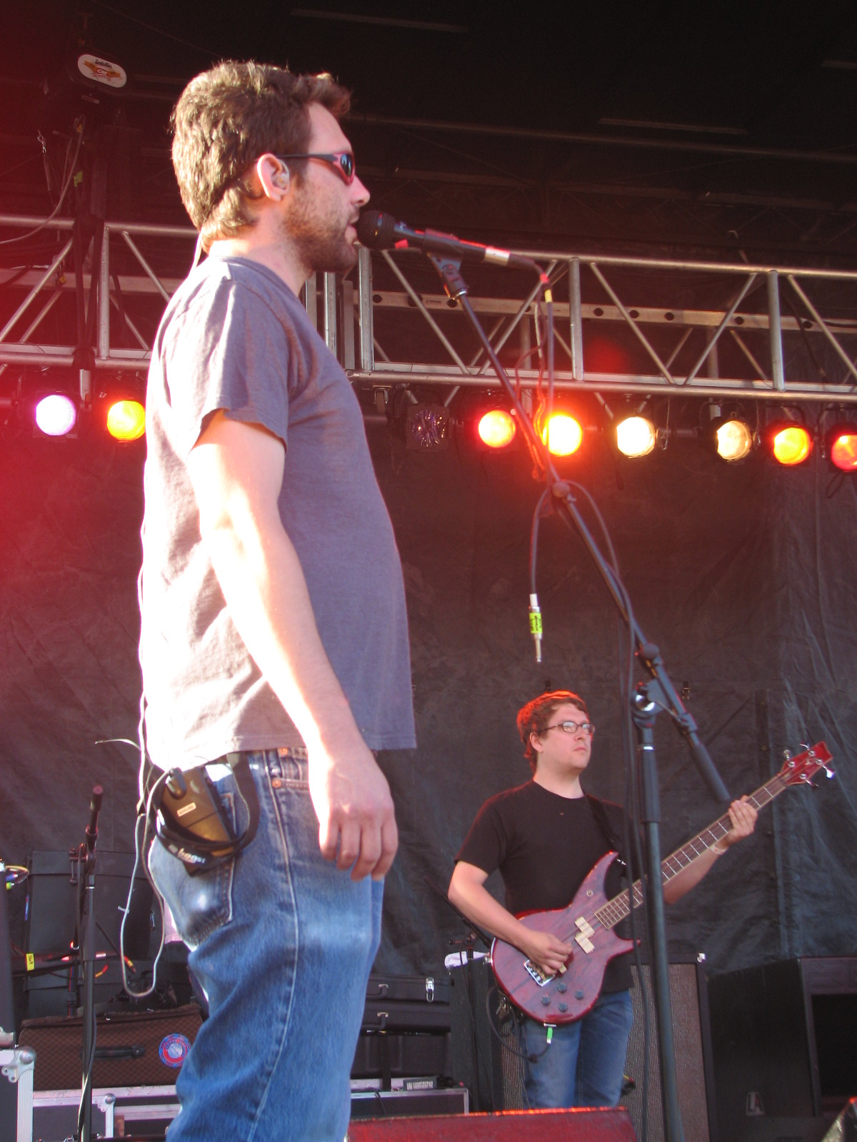 Slint performing Spiderland in its entirety at the Pitchfork Music Festival